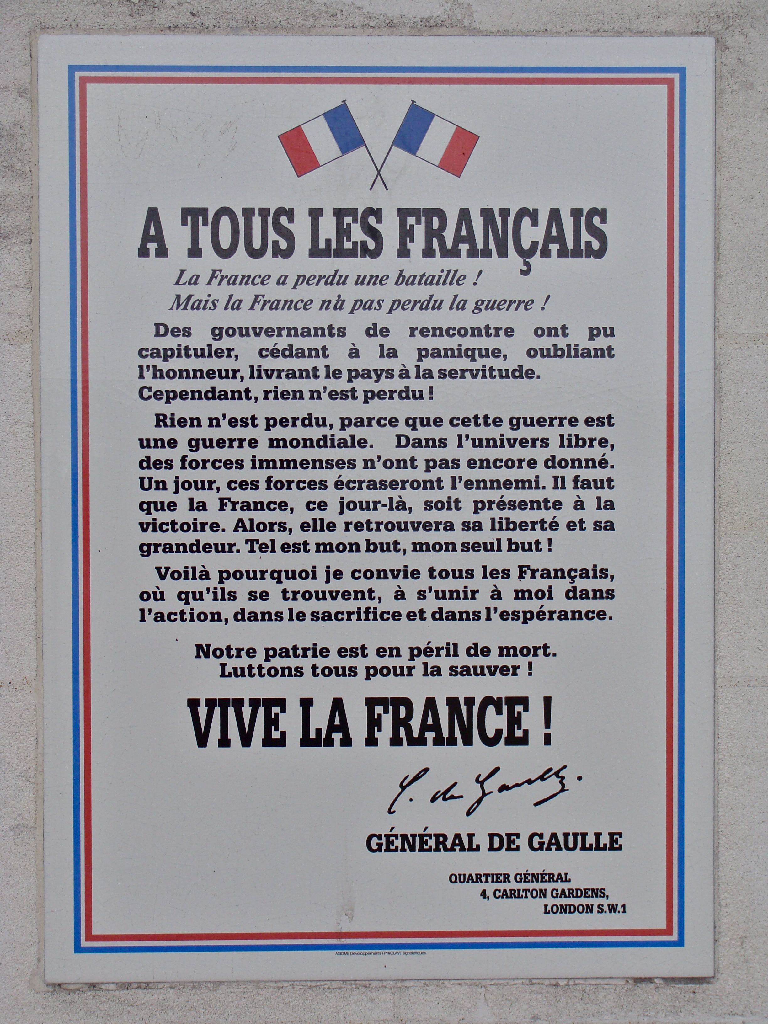 "To all Frenchmen", Gen. de Gaulle's call, 3 august 1940. A plaque in La Rochelle, France